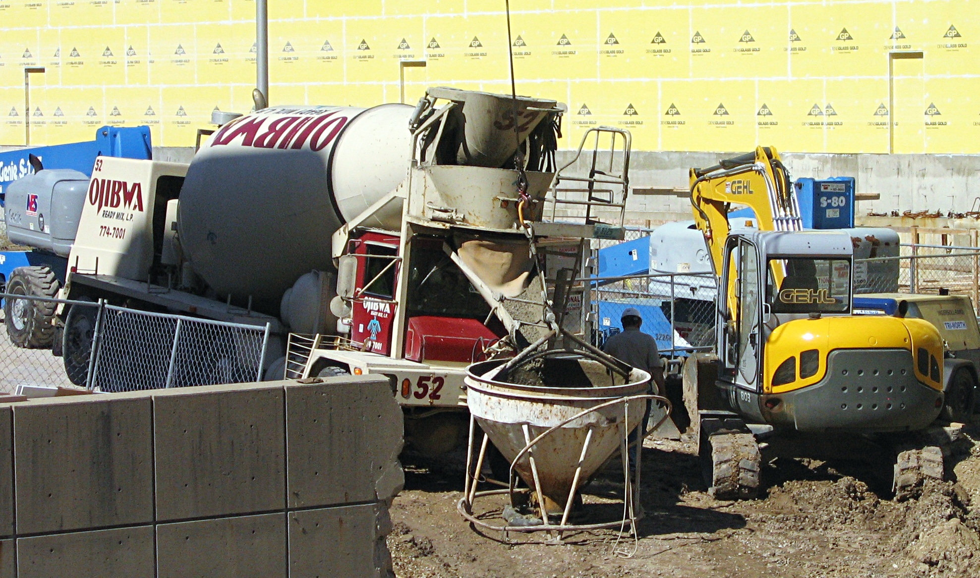 cement mixer